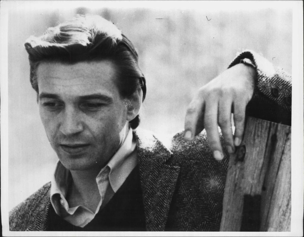 Publicity picture of Waylon Jennings for the 1971 Kentucky Derby Festival